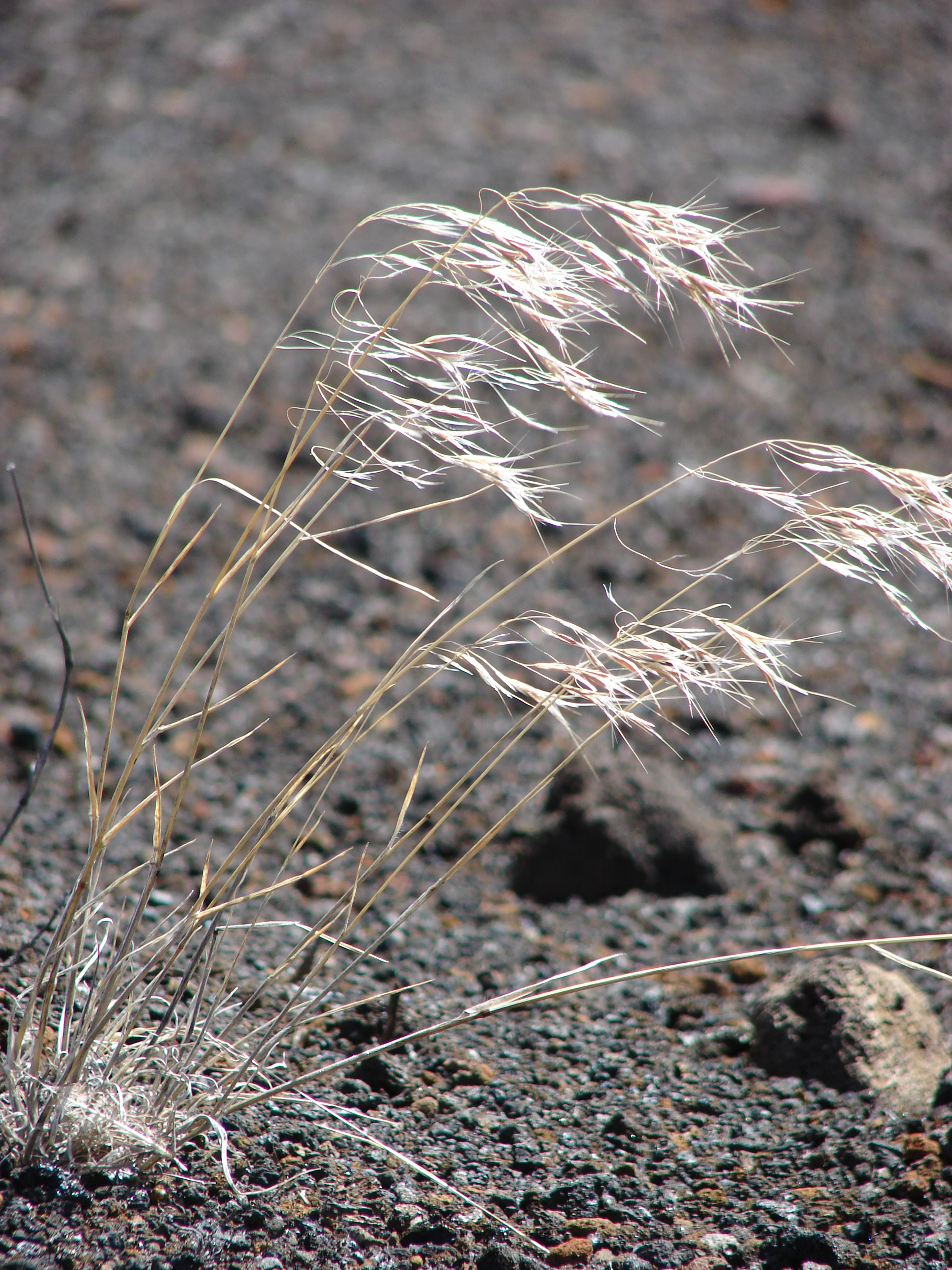 Bromus tectorum (habit). Location: Maui, near Sliding Sands Haleakala National Park